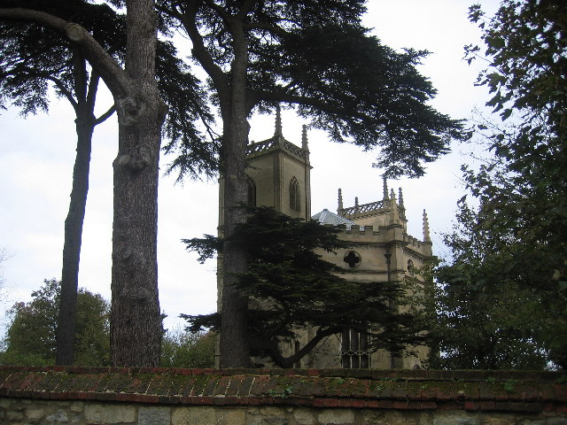 Church of the Assumption of the Blessed Virgin Mary, Hartwell, Buckinghamshire. It replaces a mediaeval church and is modelled on the Chapter House at York Minster. It was designed by Henry Keene and built between 1754 and 1756 for Sir William Lee of Hartwell House.